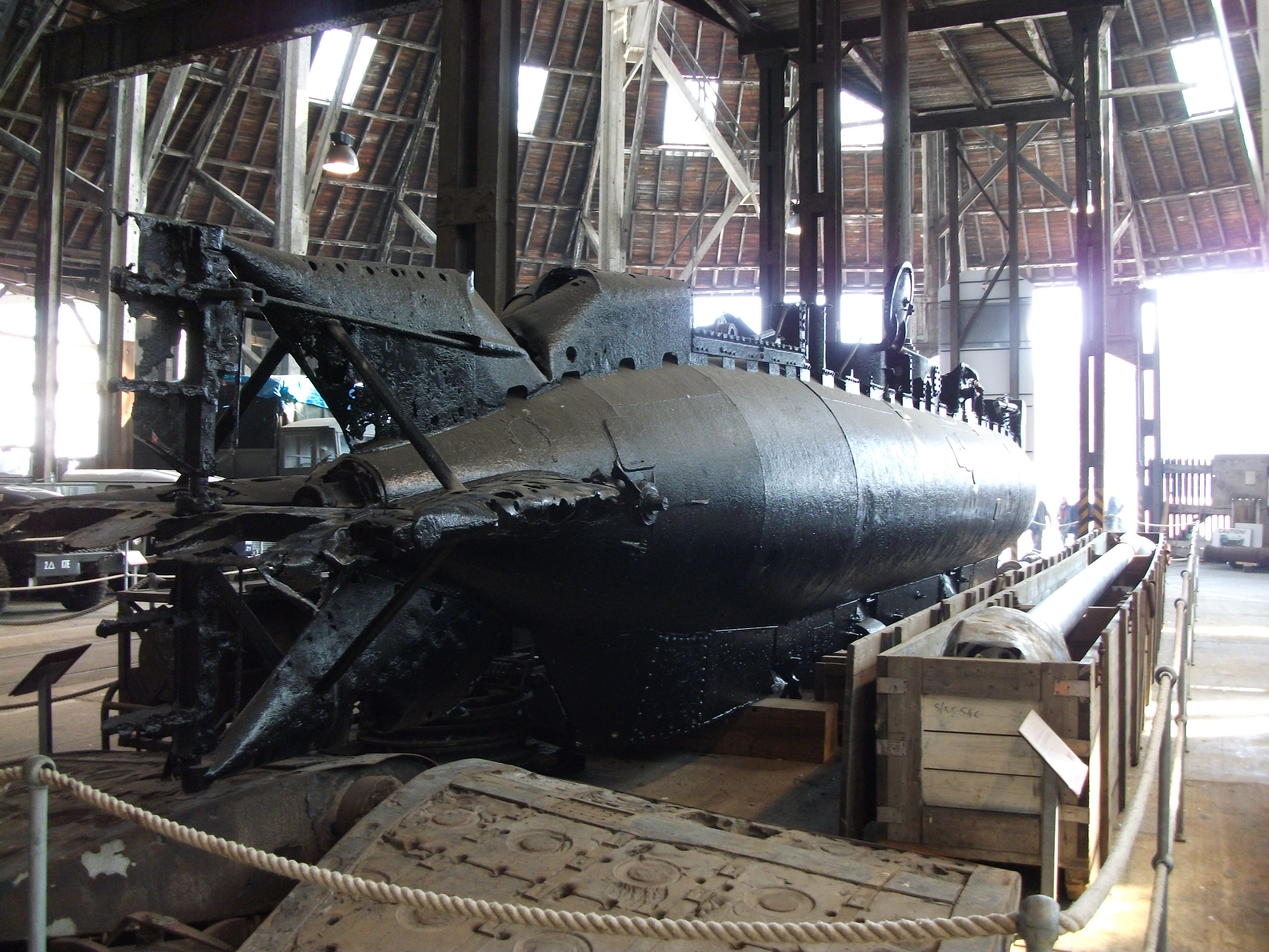 British XE class submarine built 1944. Number XE8 Expunger. Displayed at Chatham Dockyard museum. Used for target practice and sunk 1952. Raised 1973. Stern.